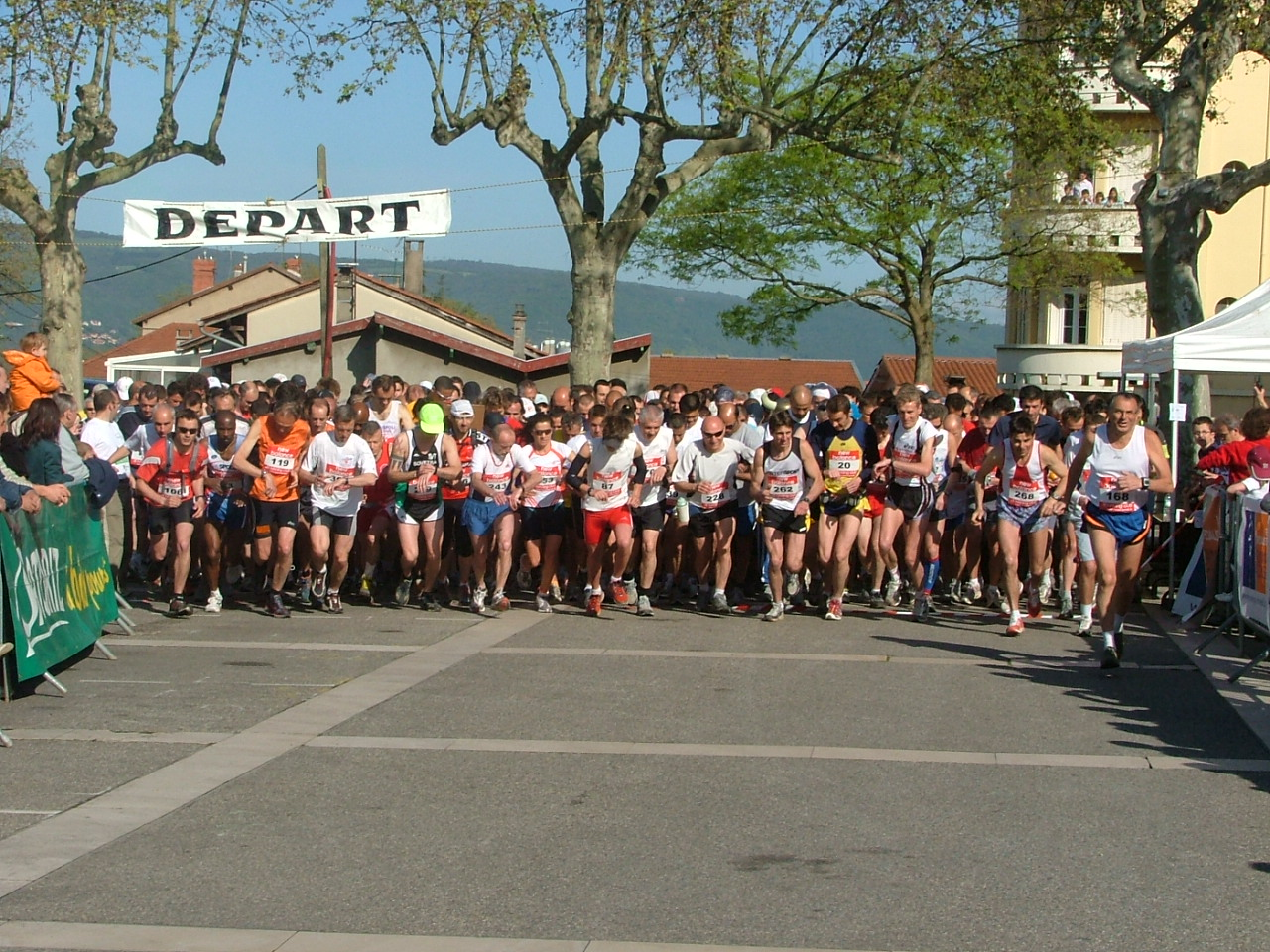 Annual race in Sathonay-Camp, France, on May 1st